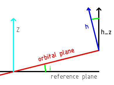 calculate the orbital inclination i from the orbital momentum vecor h and its z-component h_z as i = arccos (h_z / |h|)